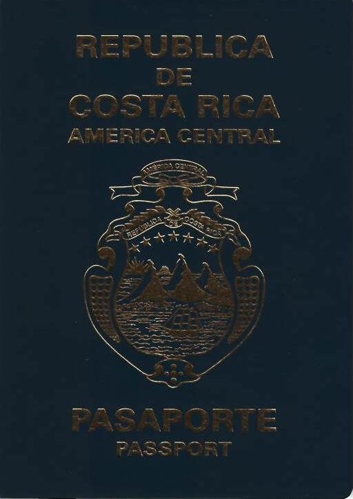 Current cover Costa Rican passport